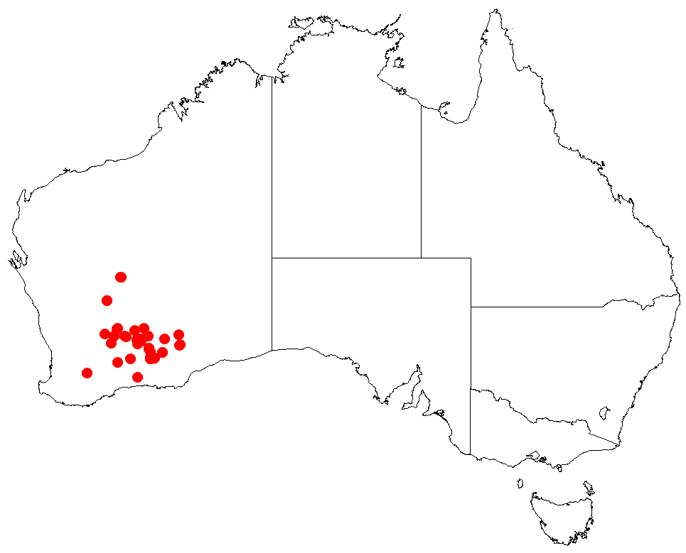 Lawrencia repens occurrence records downloaded from Australasian Virtual Herbarium, on 22 May 2018